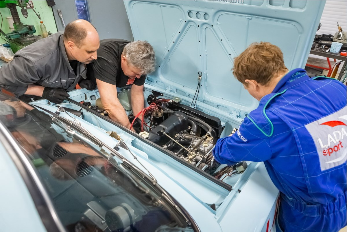 Lada VAZ 2101. ADAC Rallye Tour d'Europe 1971. Replica. Mechanics